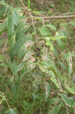 Trema tomentosa at Elvina Bay, Australia